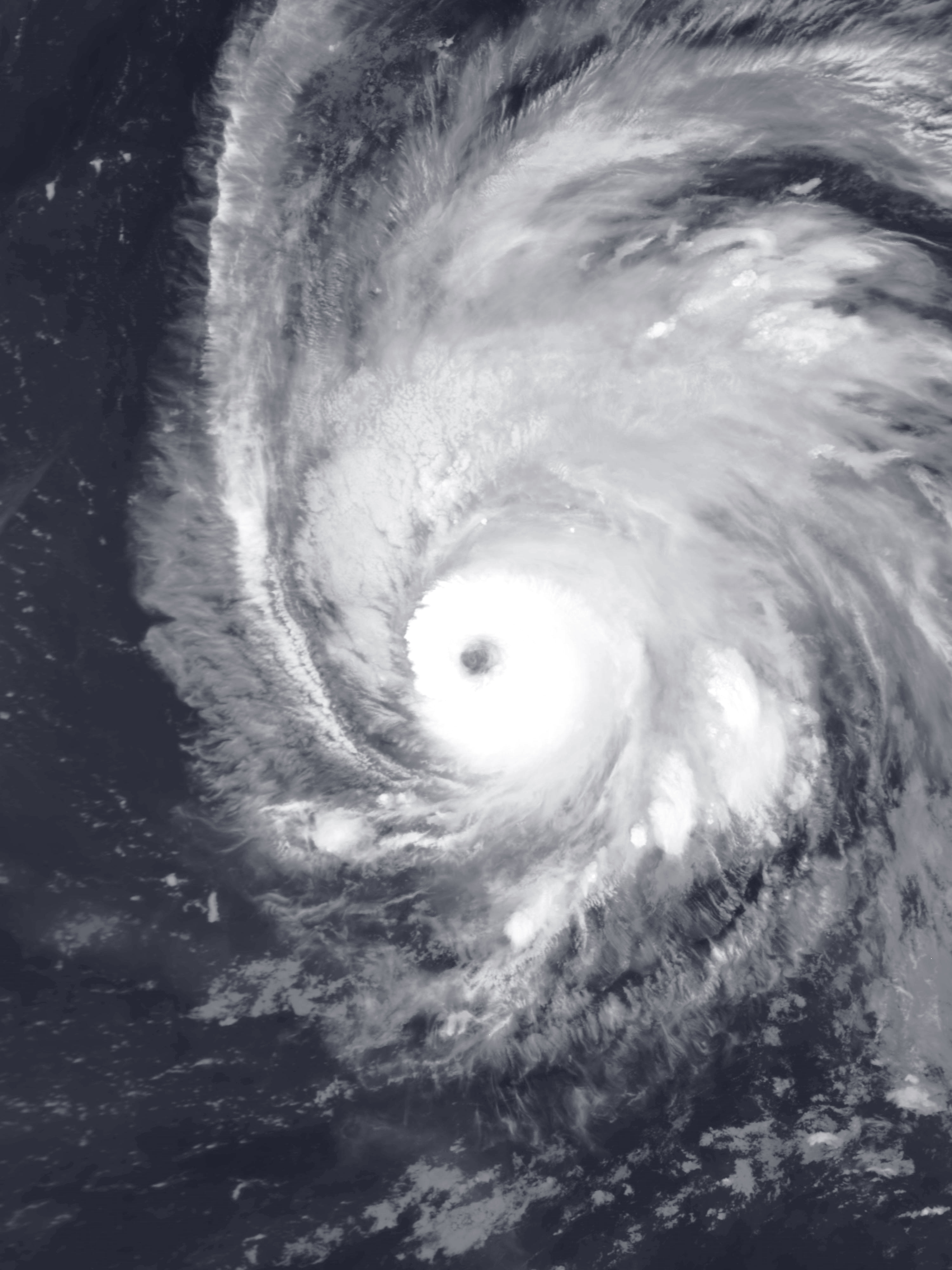 Hurricane Karl on September 21, 2004